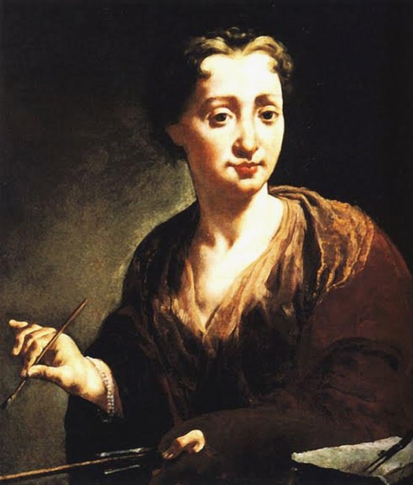 Self-portrait in Uffizi Gallery